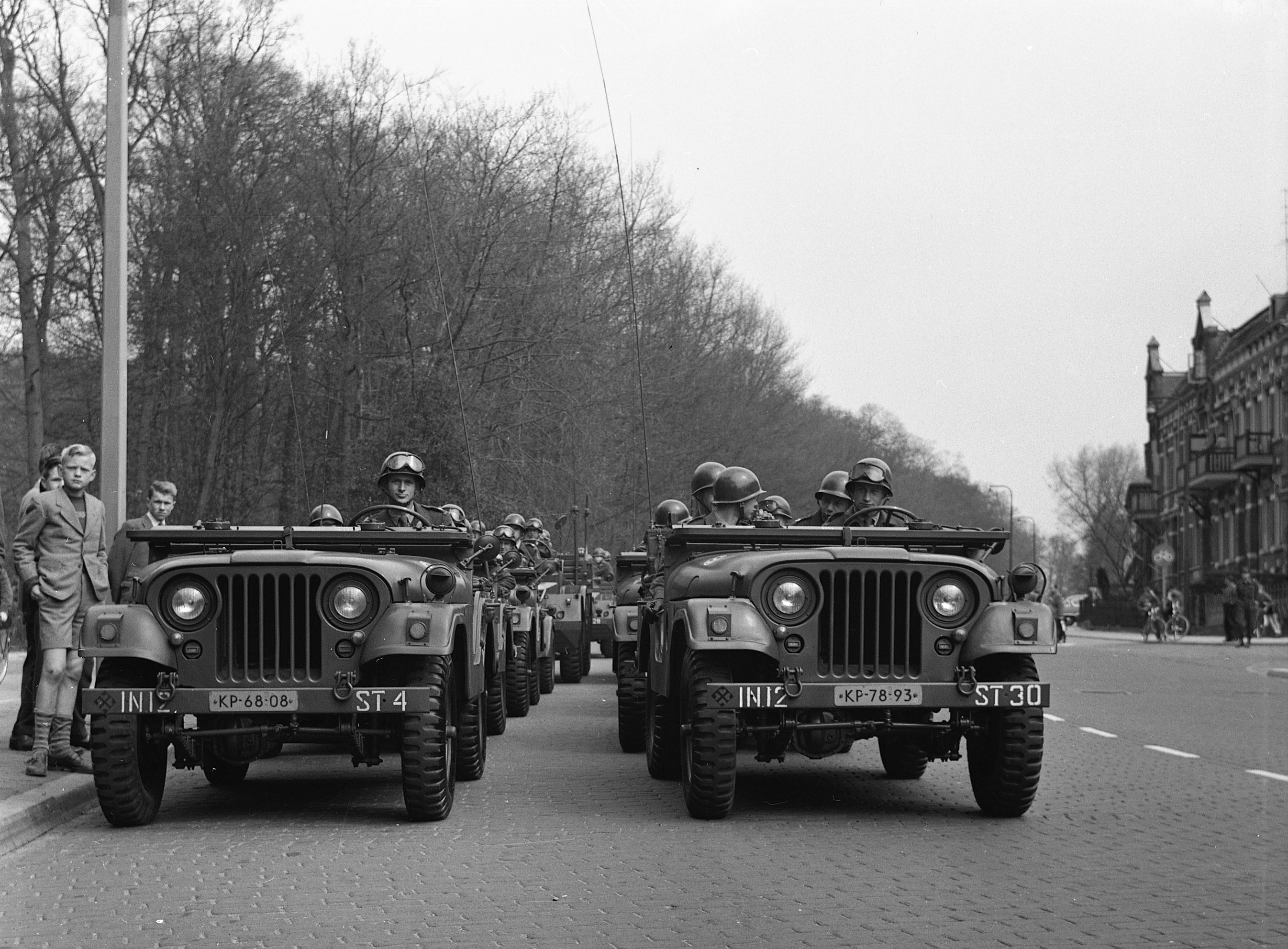 Military parade in Arnhem, The Netherlands because of Queens day on 30 April 1958